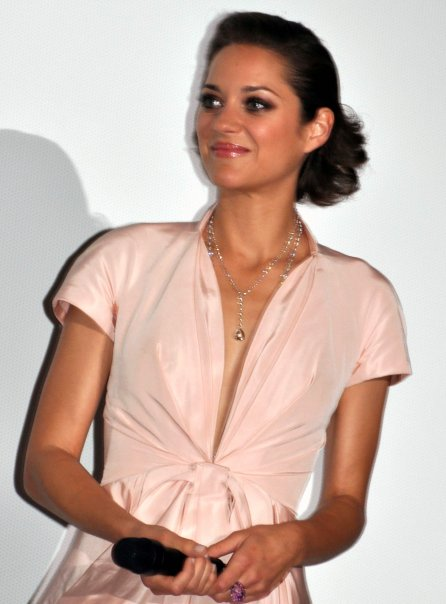 Marion Cotillard at a Paris screening of "Public enemies".